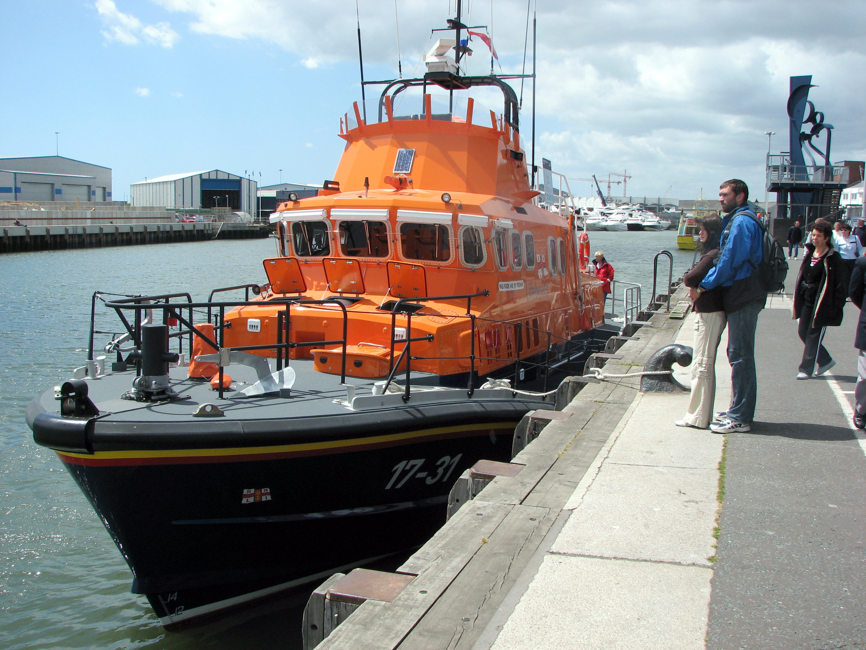 The bows of lifeboat 17-31 (Severn class) in Poole Harbour, Dorset, England. Photographed by Adrian Pingstone in June 2006 and placed in the public domain.